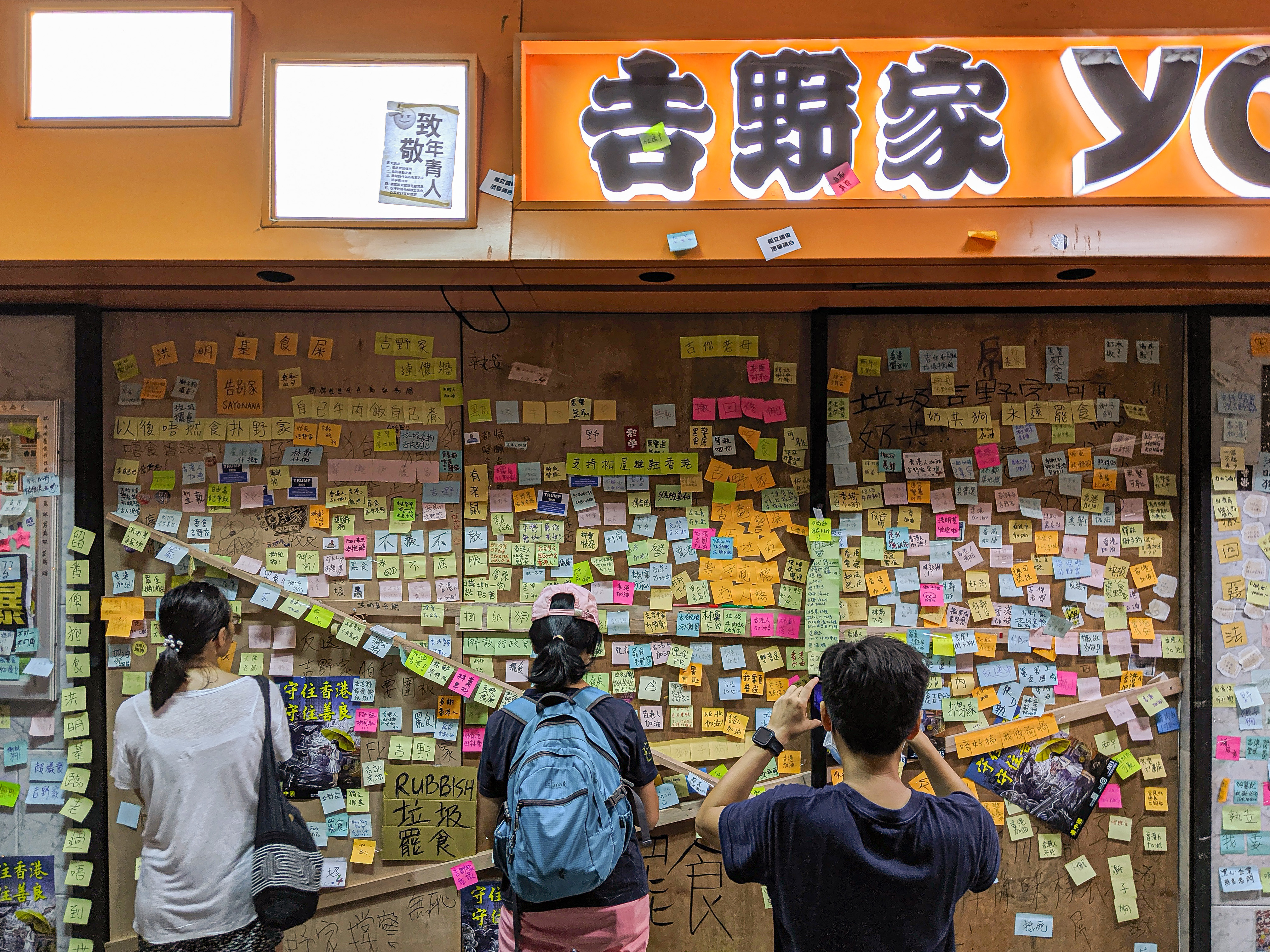 2019 Hong Kong anti-extradition law protest on 14 July 2019 in Sha Tin, captured by Studio Incendo from Flickr.